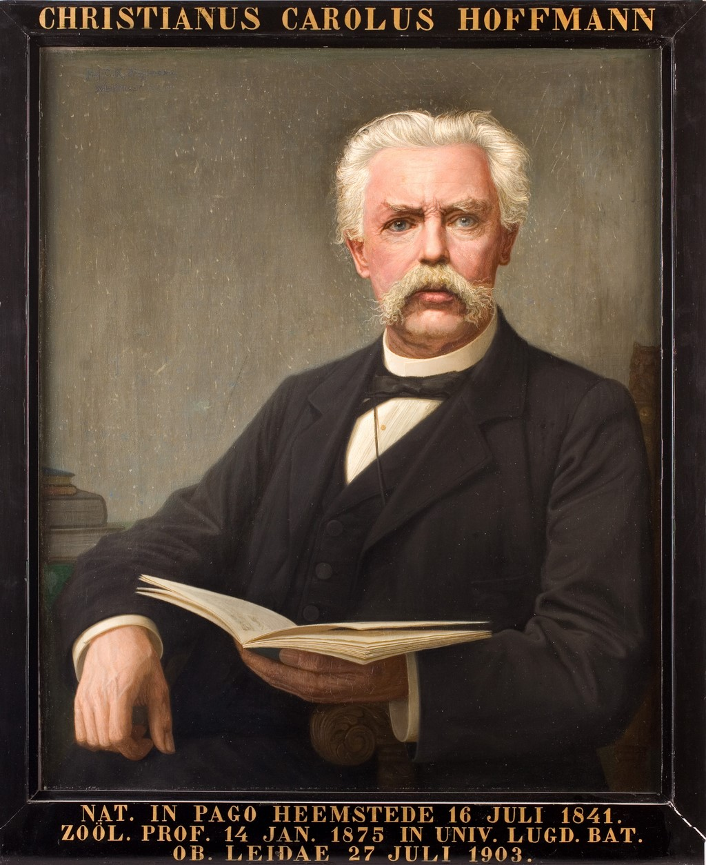 Christiaan Karel Hoffmann (1841-1903), Leiden professor (veterinary sciences). Painting (from a photograph) made in 1908 by Willem Pothast (1877-1916)